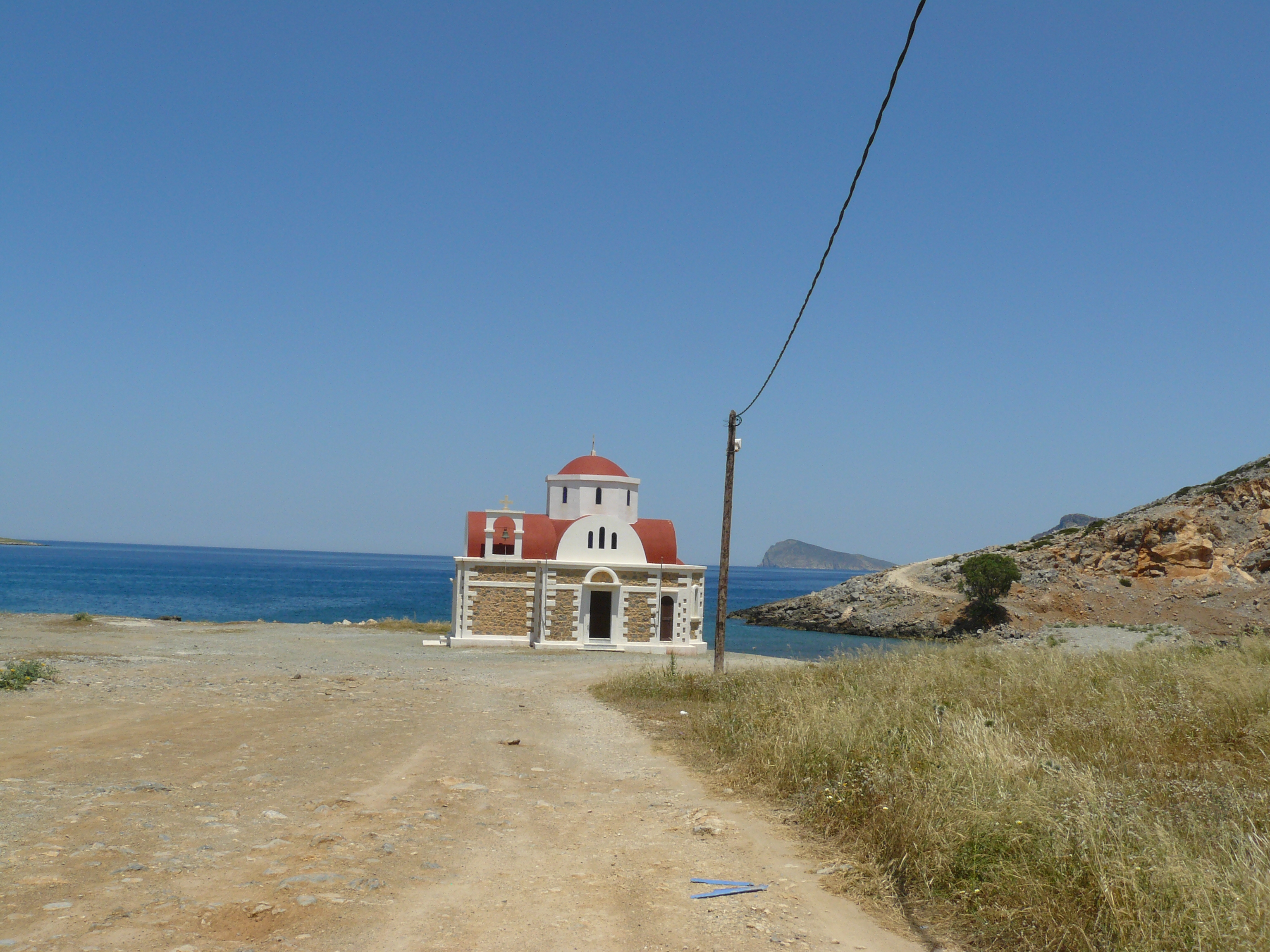 Church of Agia Fotini near the harbor of Pachia Ammos, Lasithi, Crete.